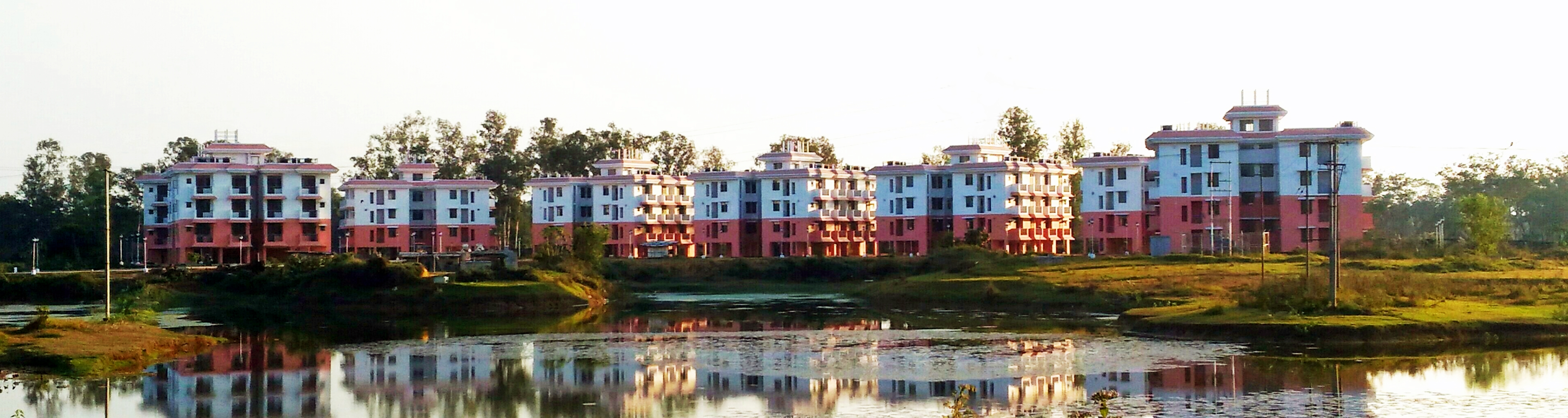 This is a picture of the Faculty Quarter at NIT Silchar. The scenic beauty at the place is a lifetime opportunity to cherish.